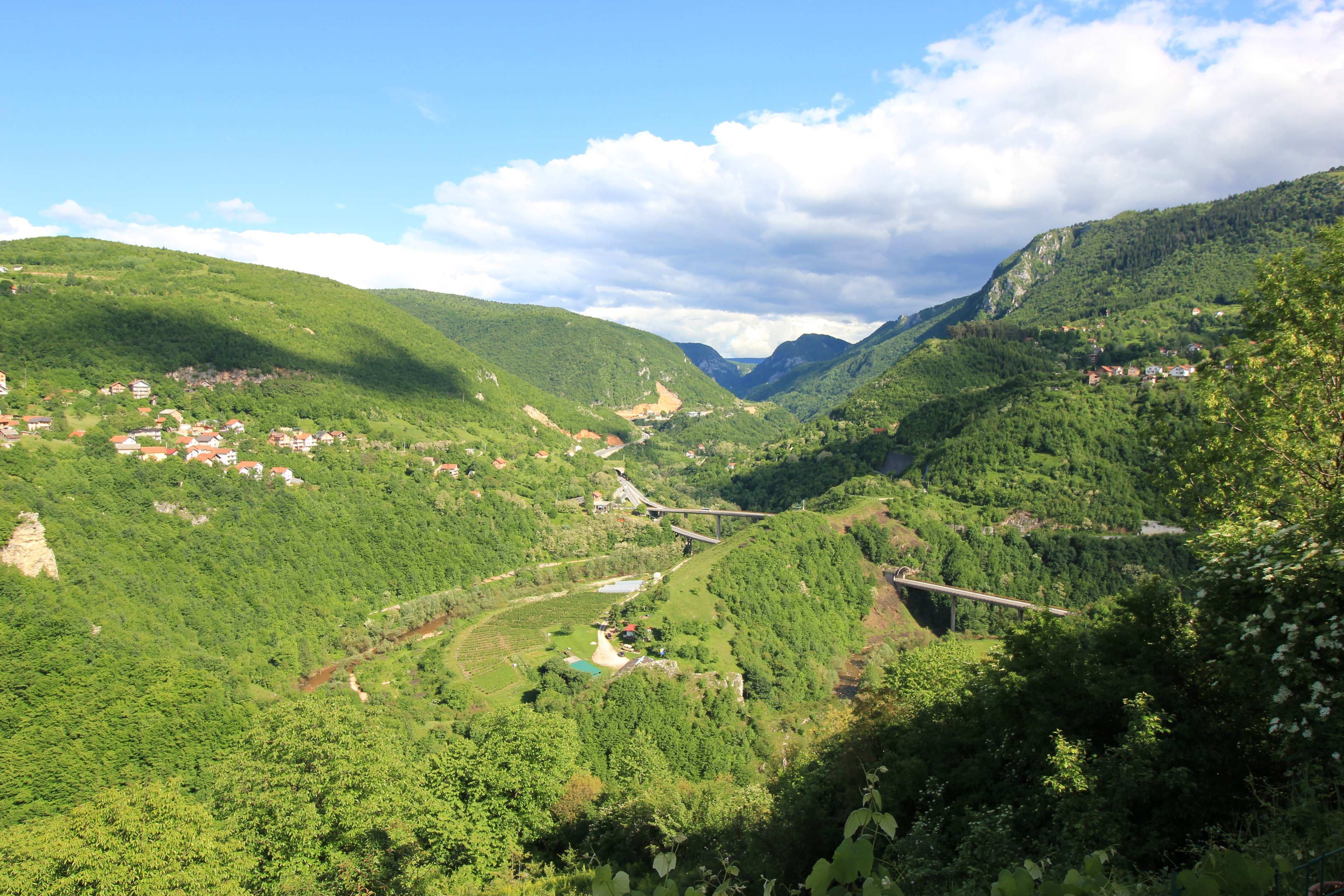 View from Bijela Tabija to Miljacka Canyon east of Sarajevo.